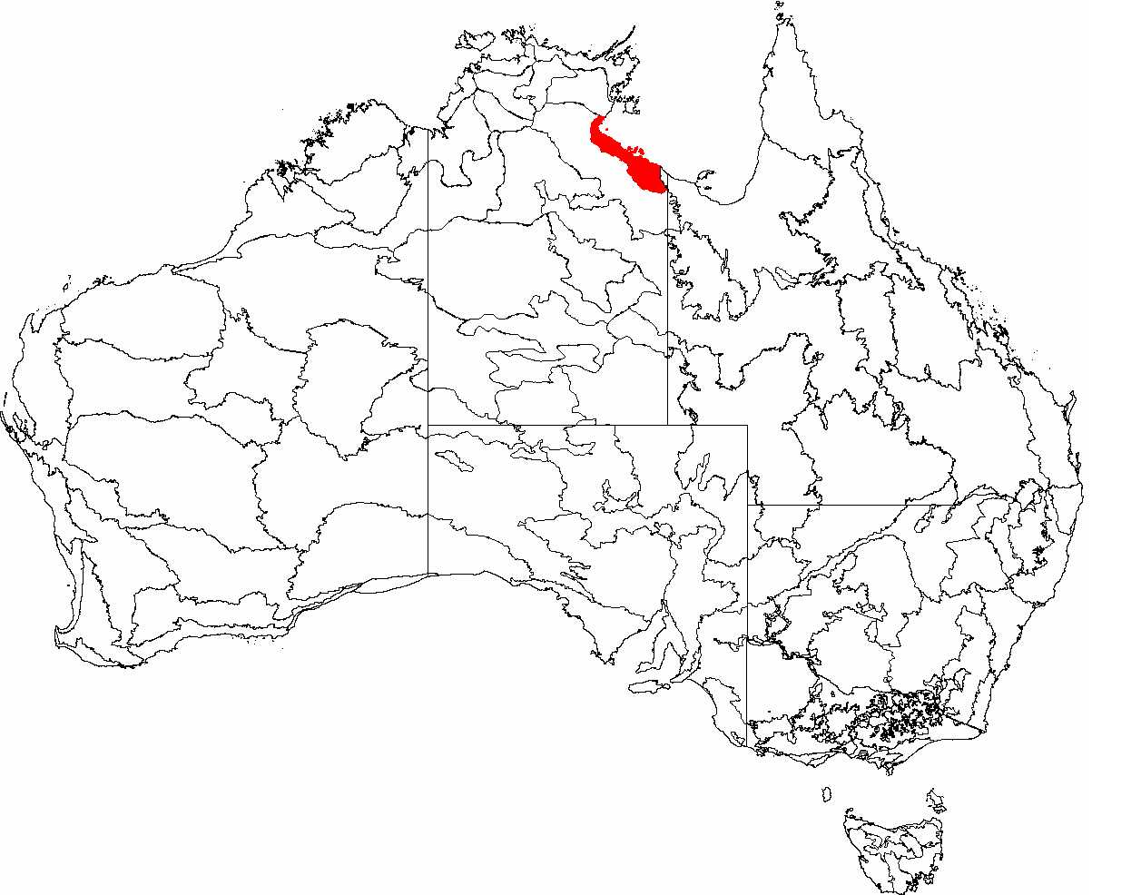 This is a map of the Interim Biogeographic Regionalisation of Australia (IBRA), with state boundaries overlaid. The Gulf Coastal region is shown in red.